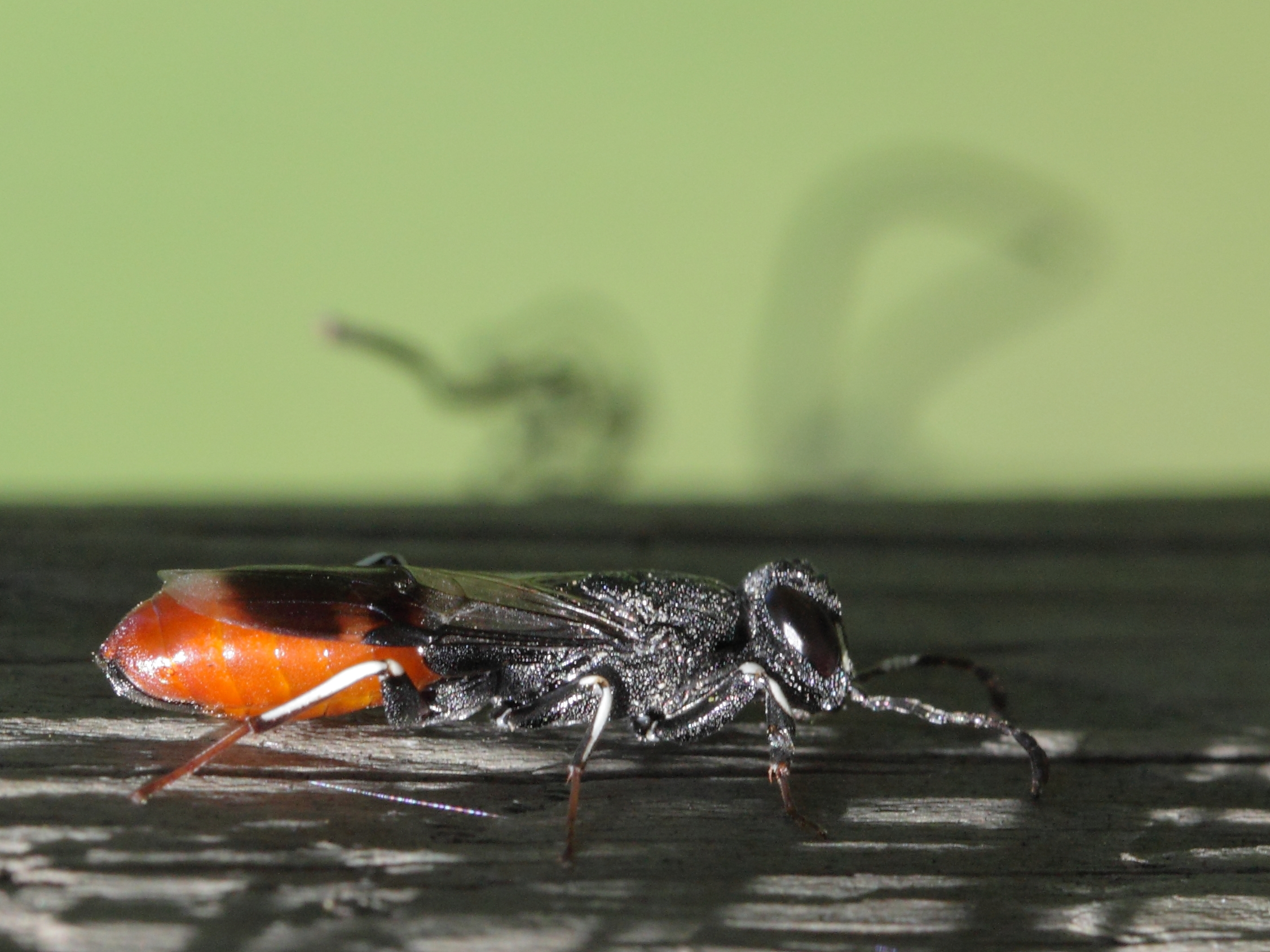 The Orussoidea, parasitic wood wasps, have retained a relatively ancestral form of ectoparasitism of buprestid beetles and siricid woodwasps... Little is known of the mode of action of the venom, if any, but late-instar larvae appear to feed on or in the host after it is dead. The phylogenetic relation of Orussidae within the order of hymenoptera seems to be: [Siricoidea + (Orussoidea + Apocrita)]. source: J. B. Whitfield (1998) "PHYLOGENY AND EVOLUTION OF HOST-PARASITOID INTERACTIONS IN HYMENOPTERA", Annual Review of Entomology Vol. 43: 129-151 Phylum: Arthropoda Subphylum: Hexapoda Blainville, 1816 class Insecta - Insects subclass Pterygota Infraclass: Neoptera Martynov, 1923 Order: Hymenoptera Linnaeus, 1758 - (bees, ants and wasps, Hautflügler) Suborder: Symphyta Gerstäcker, 1867 (sawflies, Pflanzenwespen) Superfamily: Orussoidea Family: Orussidae (parasitic plant wasps) Subfamily: Orussinae Genus: Orussus Latreille, 1796 probably: Orussus abietinus (Scopoli, 1763) more info: more info (German): taxonomiacal info: Germany, Brandenburg, vic. Königs-Wusterhausen: Forst Dubrow (Haus des Waldes), 15.05.2013, at 4:27pm IMG_3648